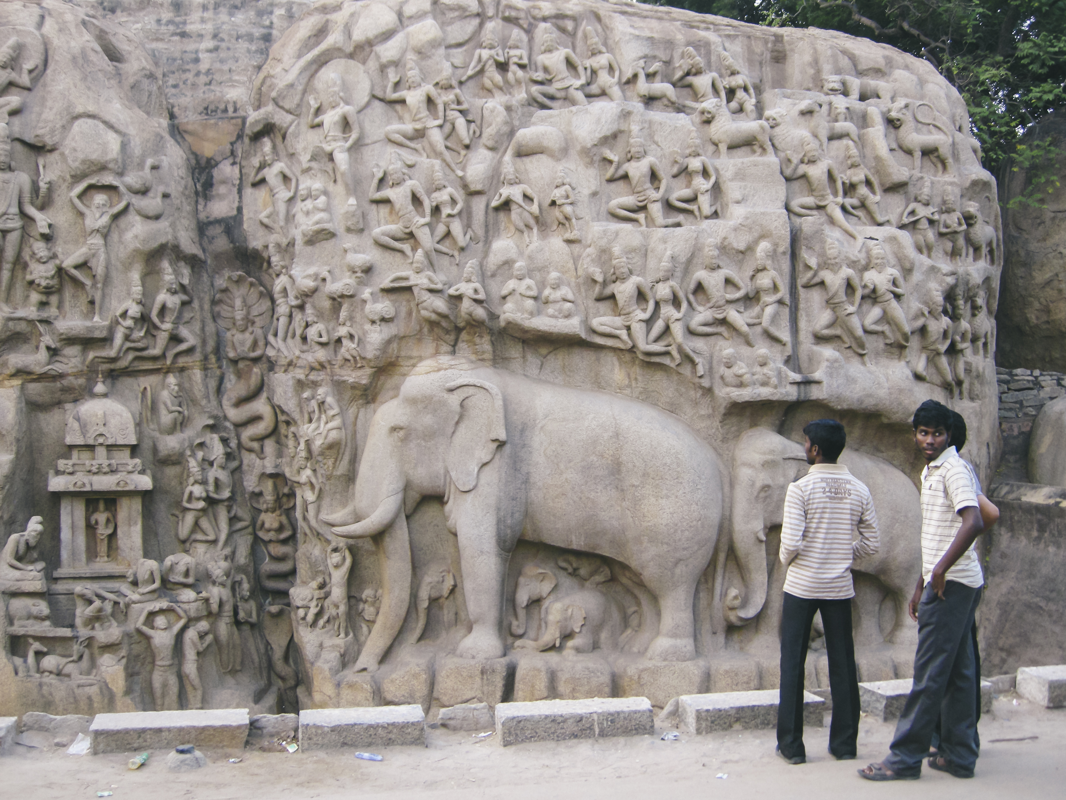 Elephant Reliefs at the Group of Monuments at Mahabalipuram